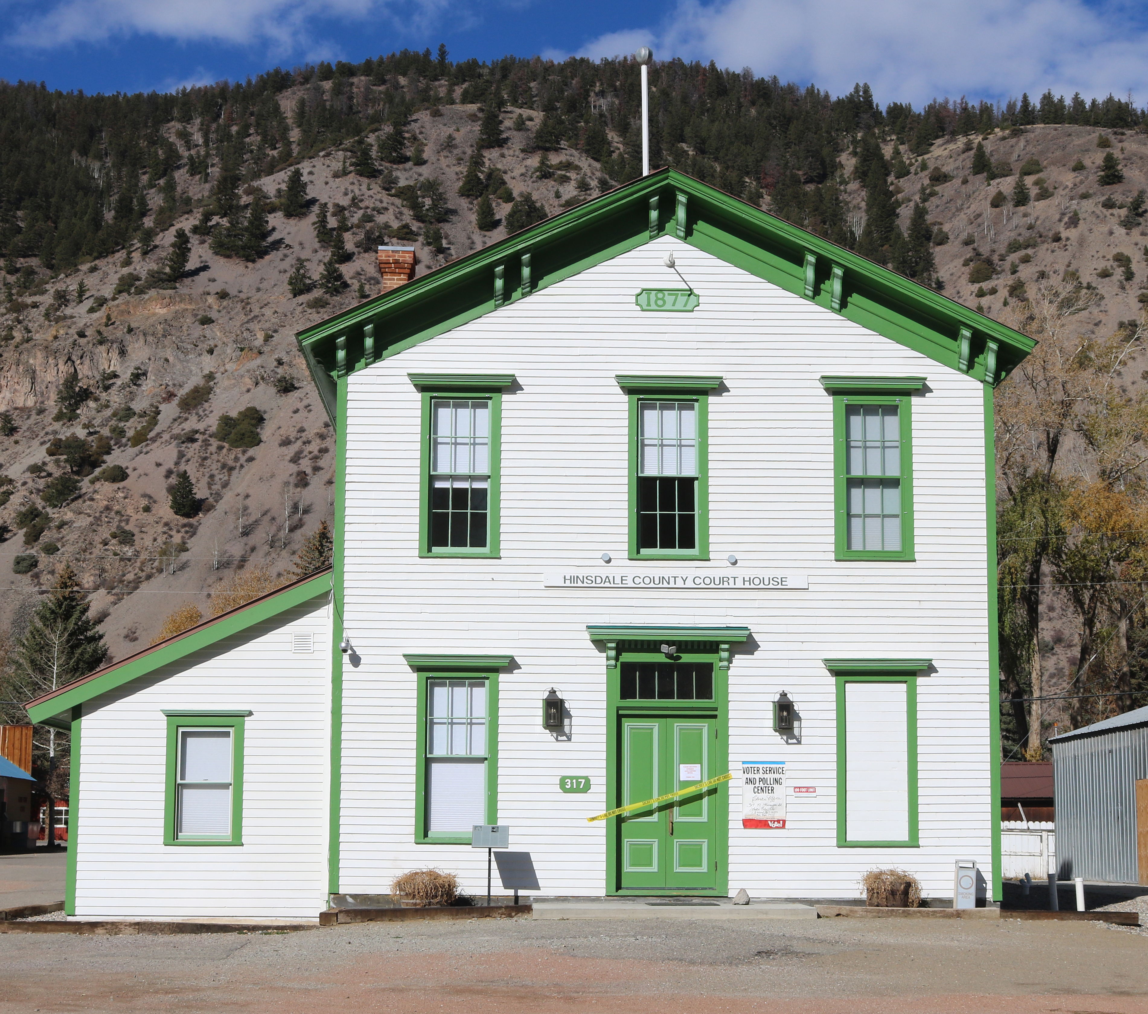 The Hinsdale County Court House, located at 317 Henson Street in Lake City, Colorado. At the time the picture was taken, the 1877 building was the oldest court house in Colorado still being used as a court house.